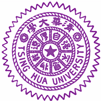 The Logo of Tsinghua Hua University, in 1928